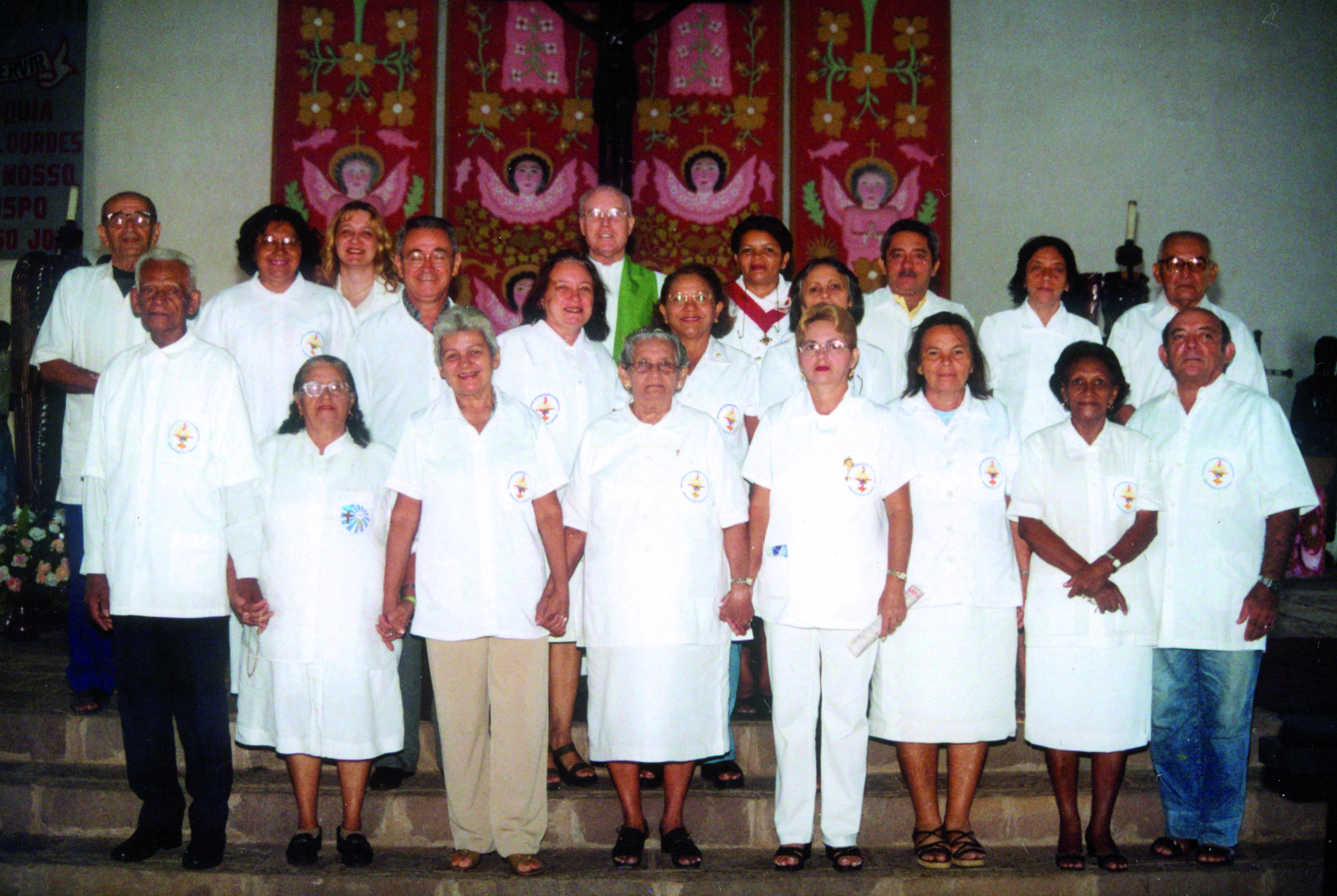 Igreja Nossa senhora de Lourdes